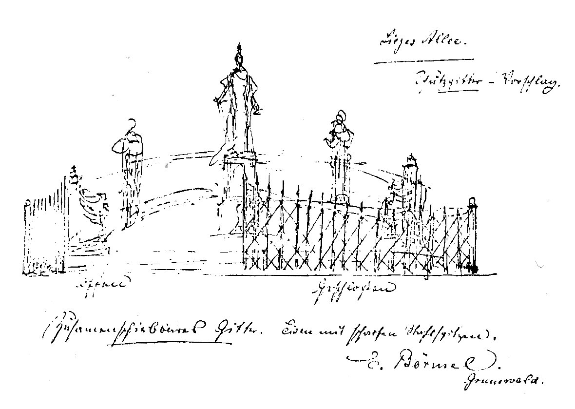 Design of the german sculptor Eugen Boermel for a latticework to protect the monument-groups of Berlin’s Siegesallee. The proposal was not realised.